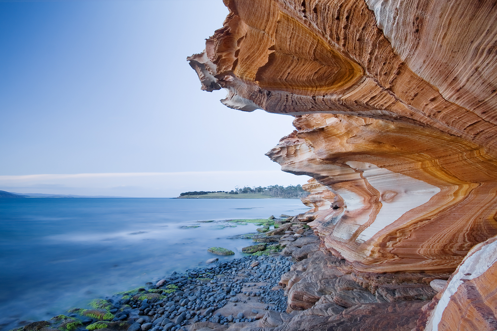 The Painted Cliffs, in the Maria Island National Park, Maria Island, Tasmania, Australia.